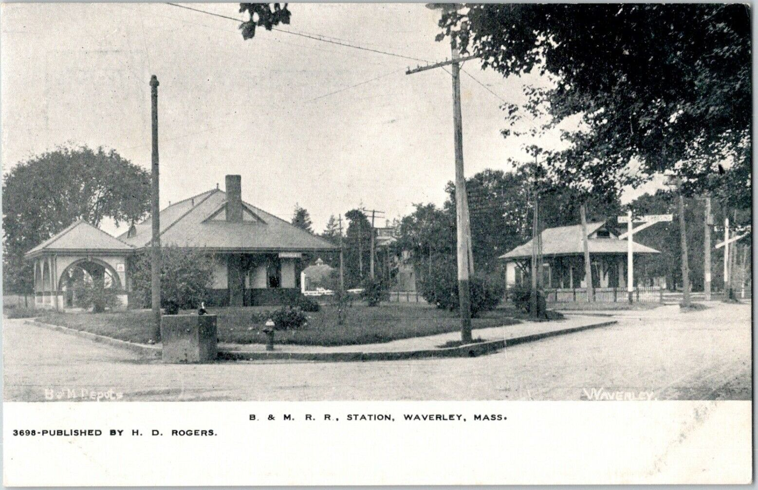 Early divided back postcard of Waverley stations. The ex-Fitchburg Railroad station is at left, and the ex-Central Massachusetts Railroad station at right. By this time, both railroads and stations were under control of the Boston & Maine Railroad